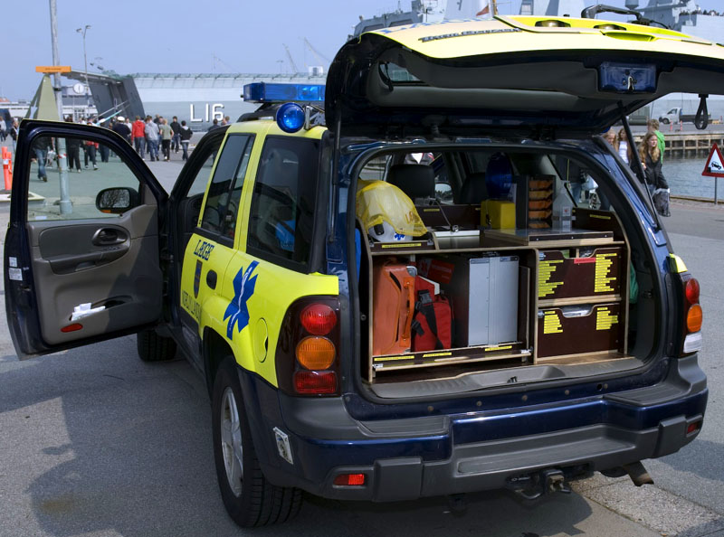 A Chevrolet Trailblazer rapid response vehicle operated be the danish navy